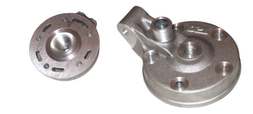 Head of Husqvarna 2T motor with liquid cooling